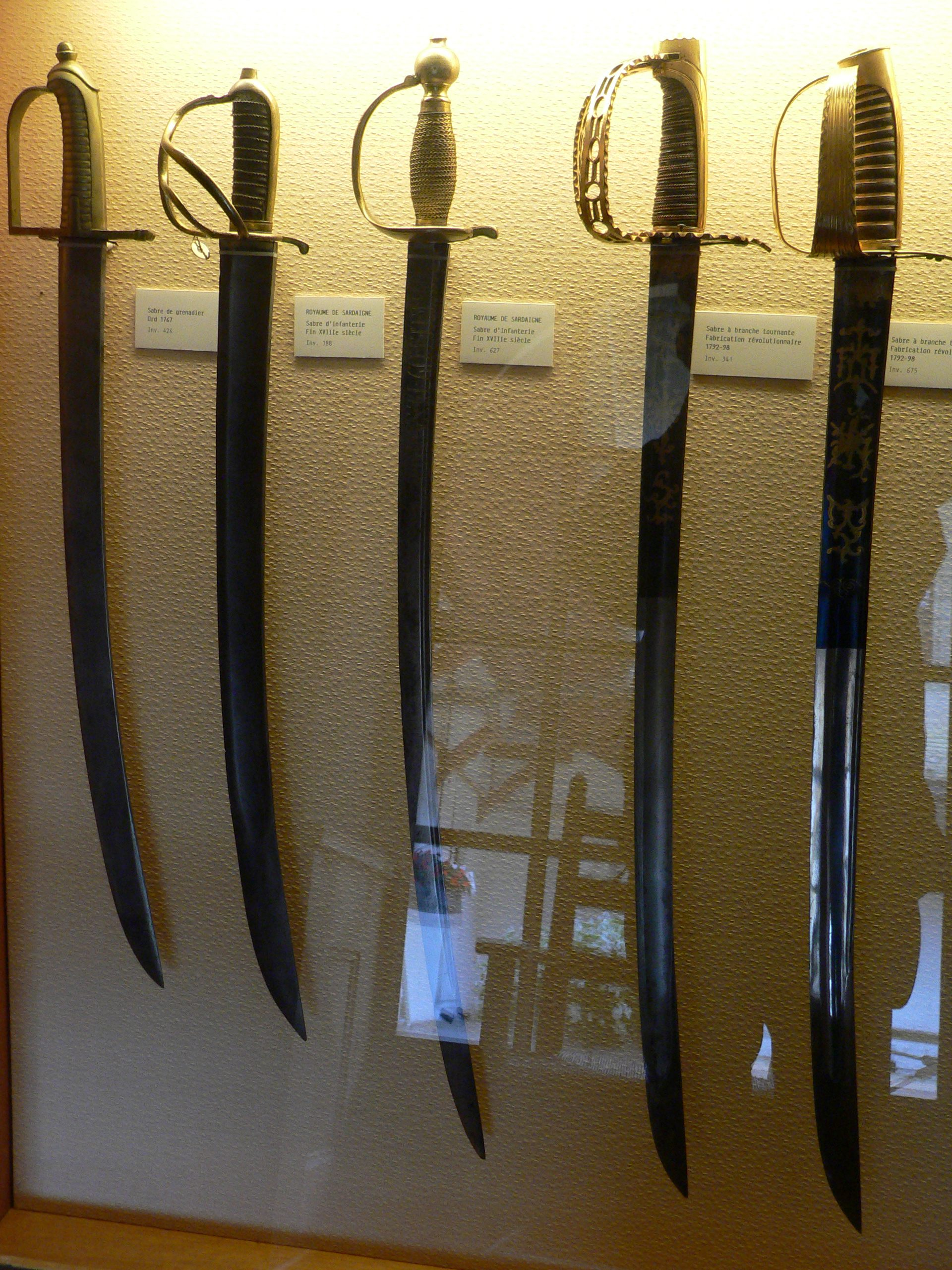 Sabres of the French Revolution and First Empire era, Morges museum, Switzerland